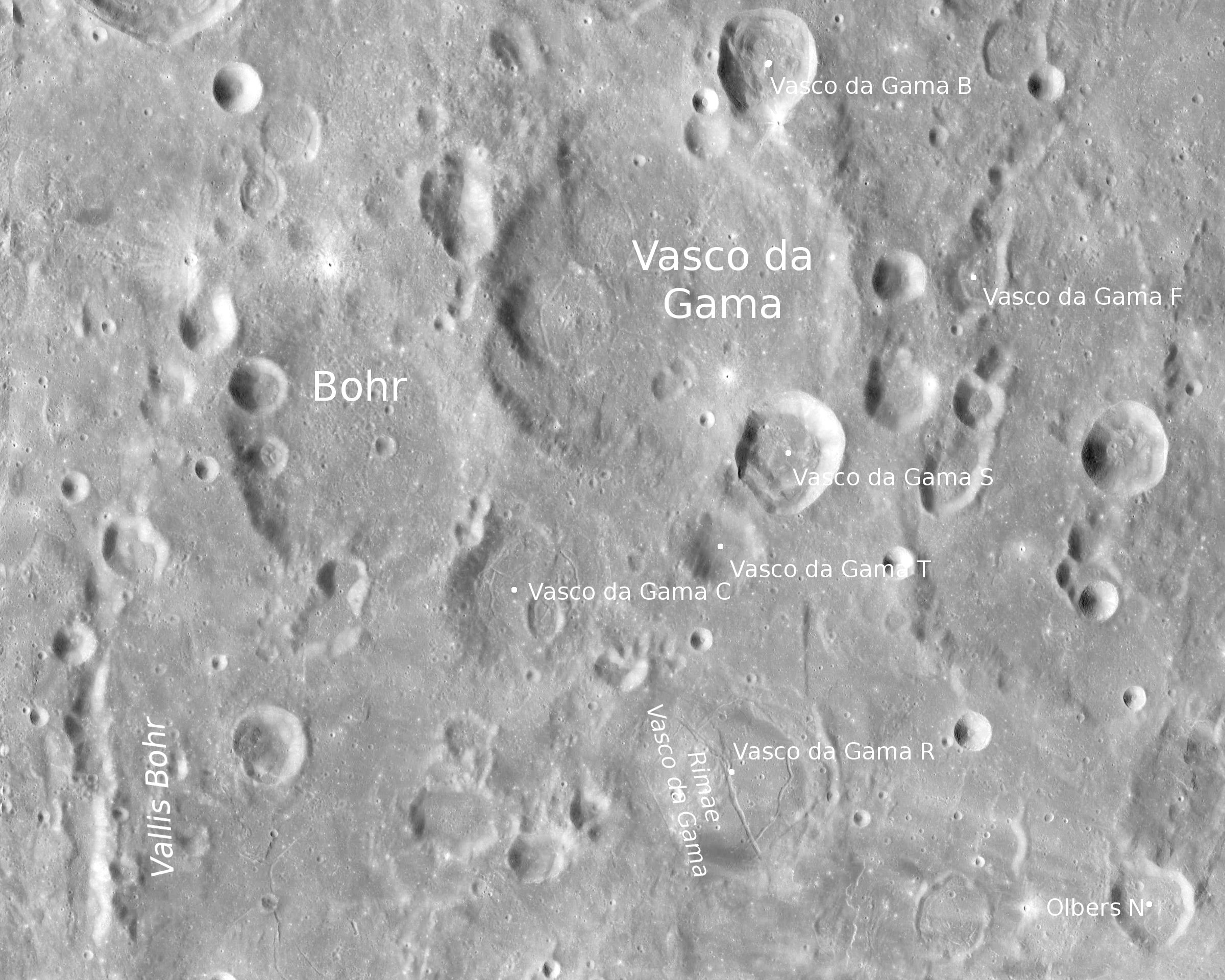 Craters Bohr, Vasco da Gama and satellite features (detail of LROC - WAC global moon mosaic)